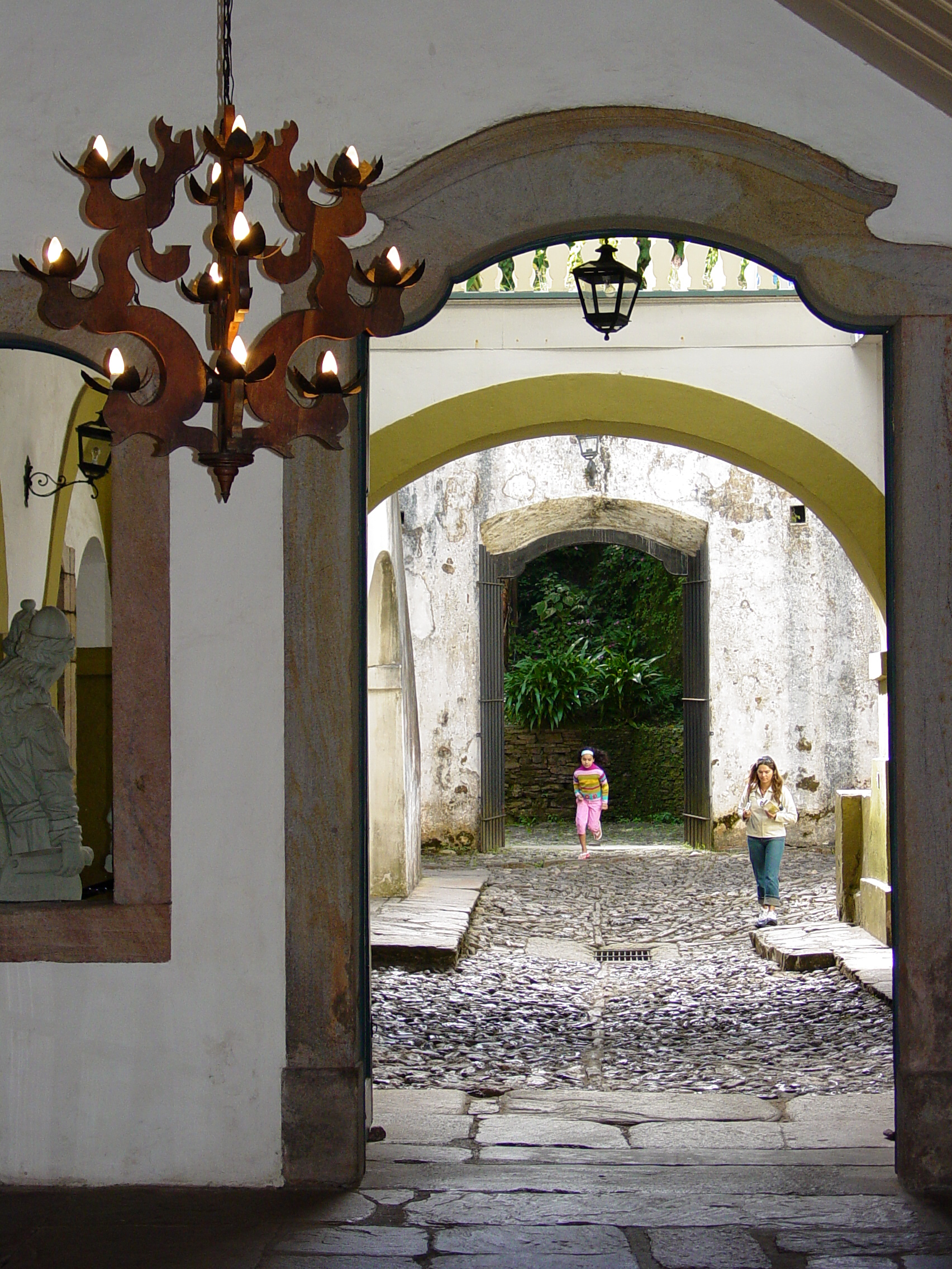 Courtyard in Ouro Preto, Minas Gerais state, Brazil. July 2006. Ouro Preto is the jewel in the crown of Minas Gerais's colonial towns. It was Brazil's wealthiest city during the 18th-century gold boom, and in 1931 the city fathers issued an edict that the town's architectural character had to be preserved -- i.e., no modern constructions would be permitted. Today it must stand as the most extensive colonial complex in the Americas, with the possible exception of the old city of Cartagena de Indias in Colombia (the most beautiful square mile on the face of the earth). Restoration continues apace, and far from feeling like a museum, Ouro Preto is also a major university town, with a youthful and vibrant ambience.